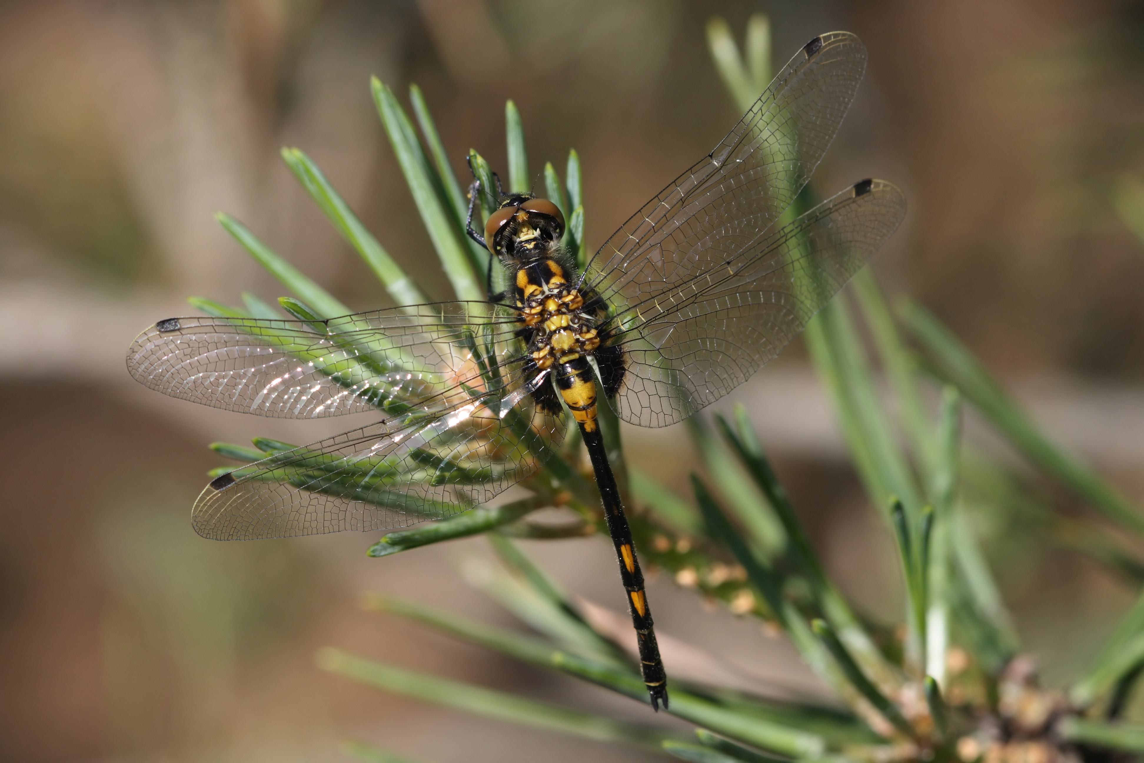 Teneral male of the White-faced Darter (Leucorrhinia dubia) in the Ahlenmoor, a peatland in northern Lower Saxony, Germany.The specimen has been identified als a male due to the form of the long upper appendices and the marking of the abdomen, female animals are many more heavyset. Probably it hatched just a few days ago and it will take still another week until all now yellow appearing ranges are red colored.